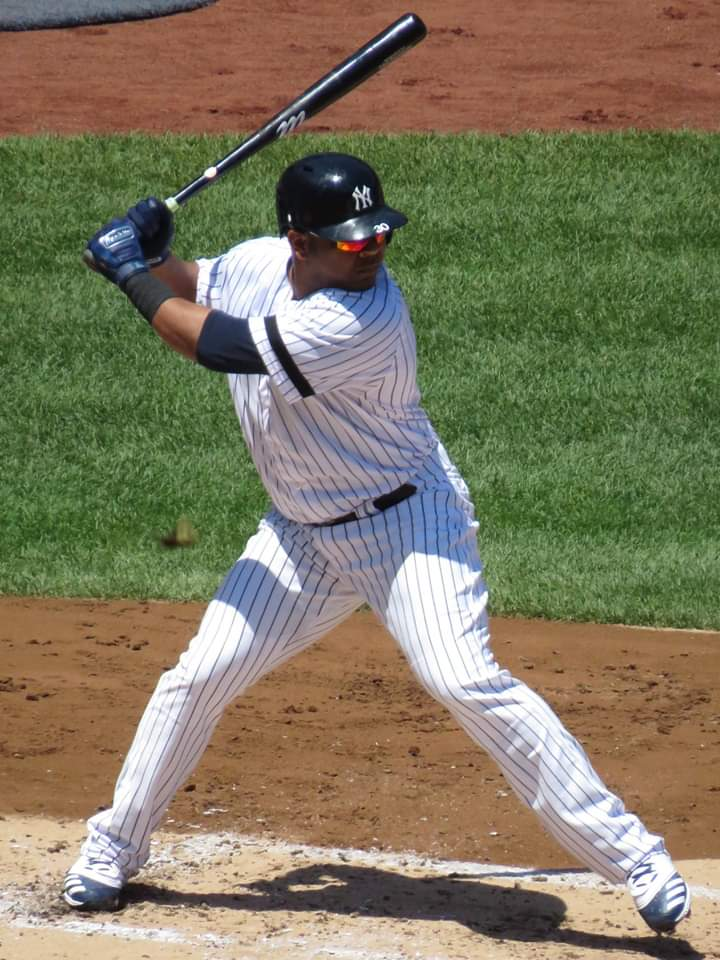 Edwin Encarnacion in 2019